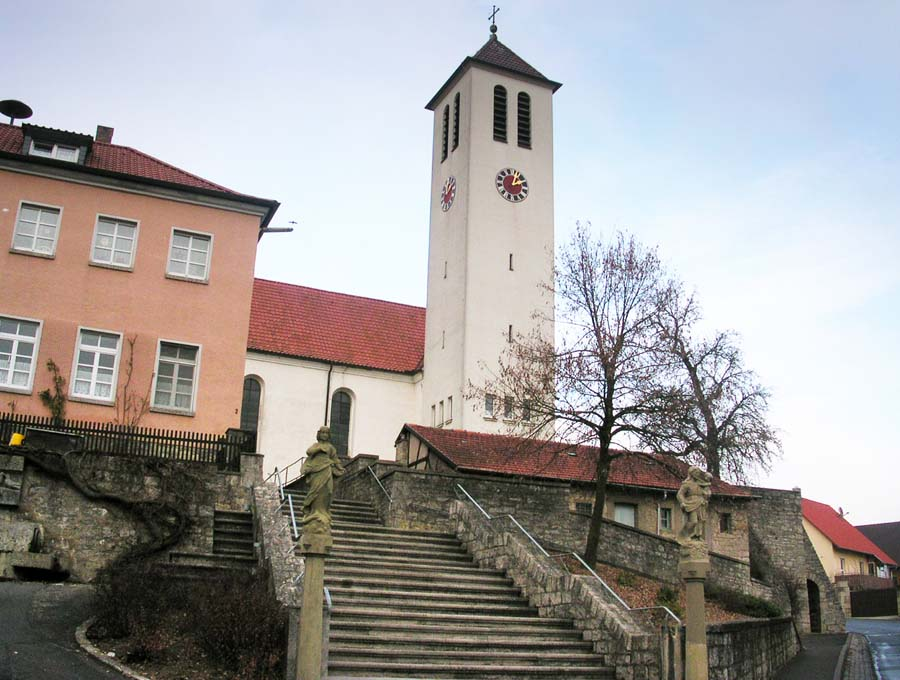 Church of St Bartolomäus, Acholshausen, in the district of Gaukönigshofen, Bavaria. It was destroyed during World War II and rebuilt over the next three decades